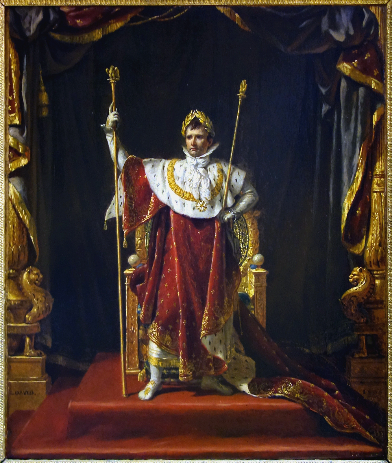 Portrait of Napoléon